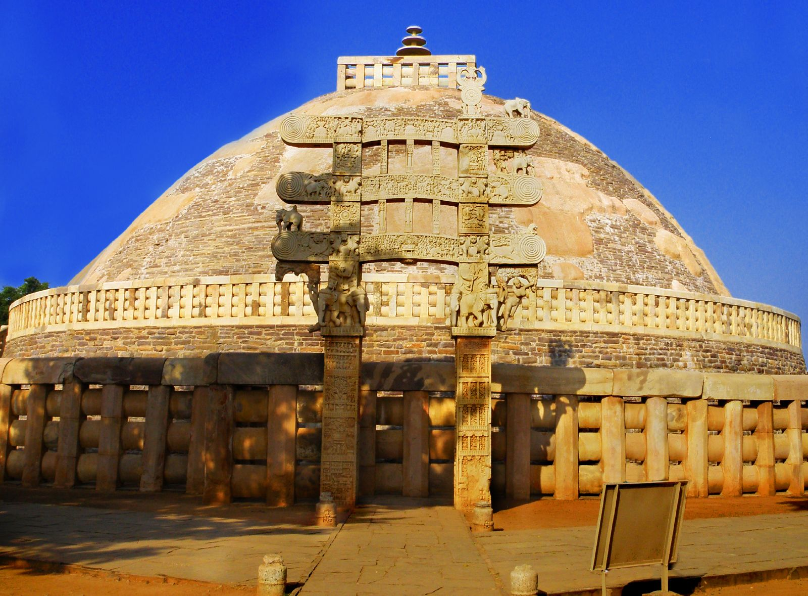 The main Sanchi Stupa from the Eastern gate, in Madhya Pradesh, which contain the relics of Gautam Buddha.